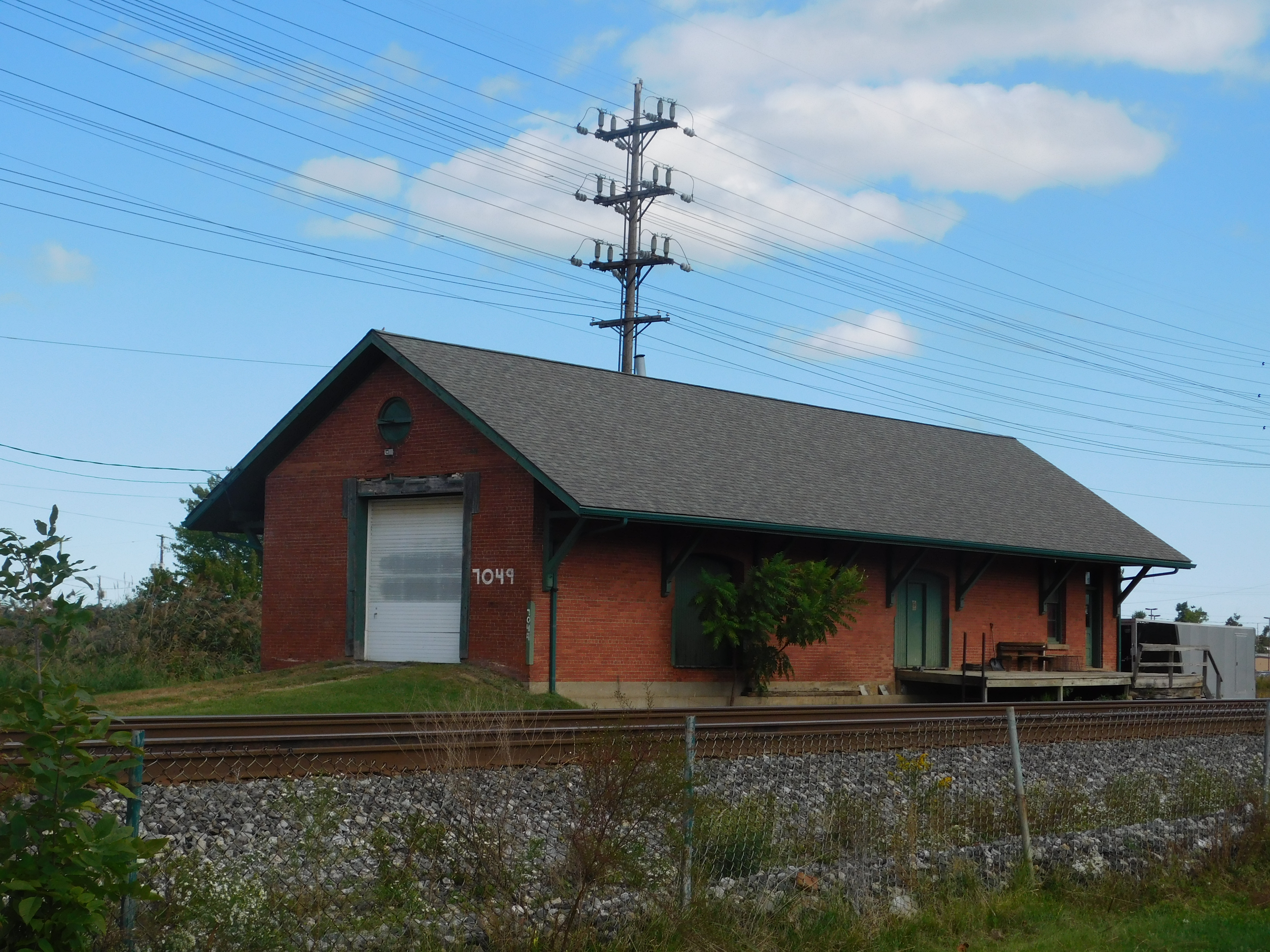 Mentor Station freight house, Mentor, Ohio